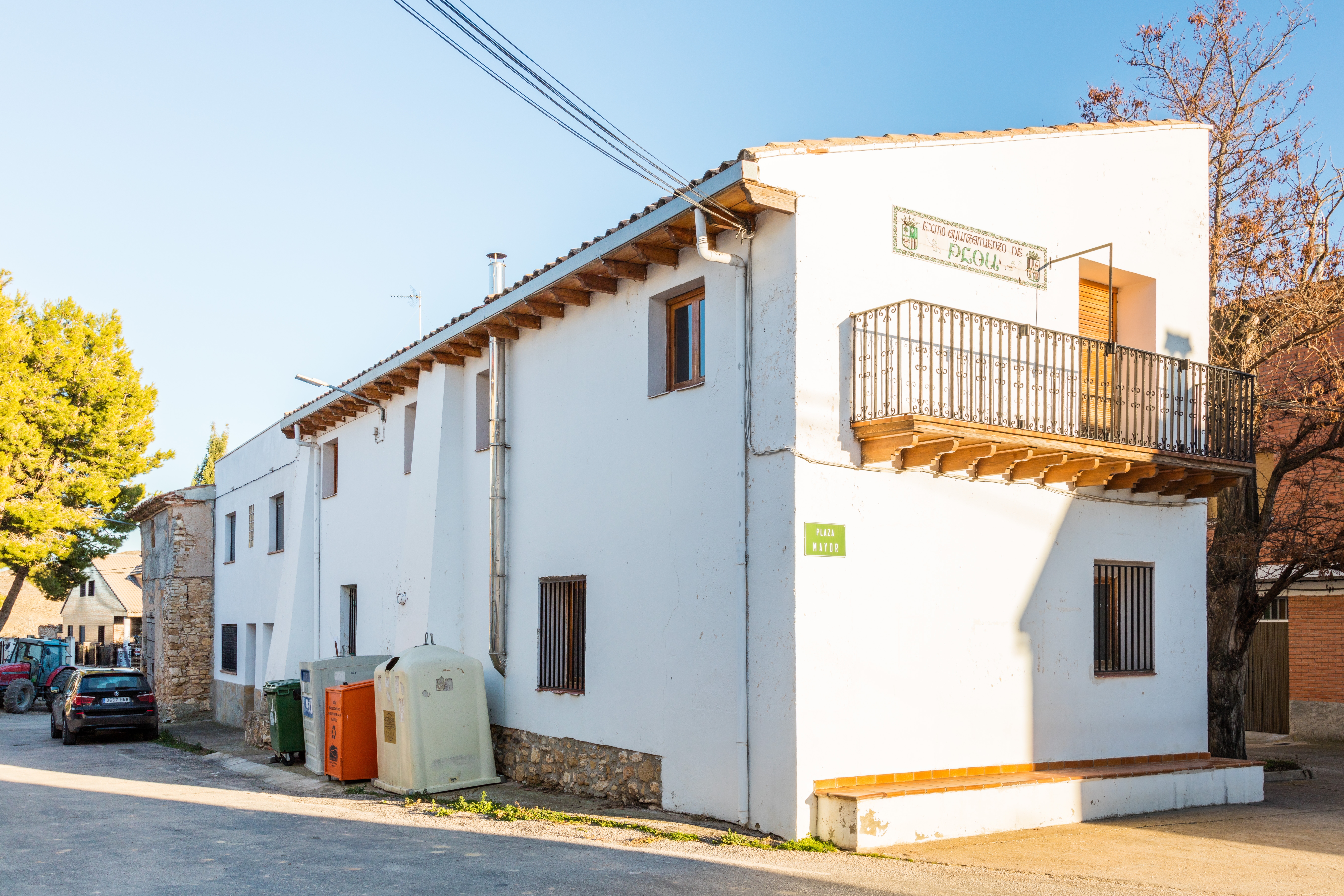 Town hall, Plou, Teruel, Spain